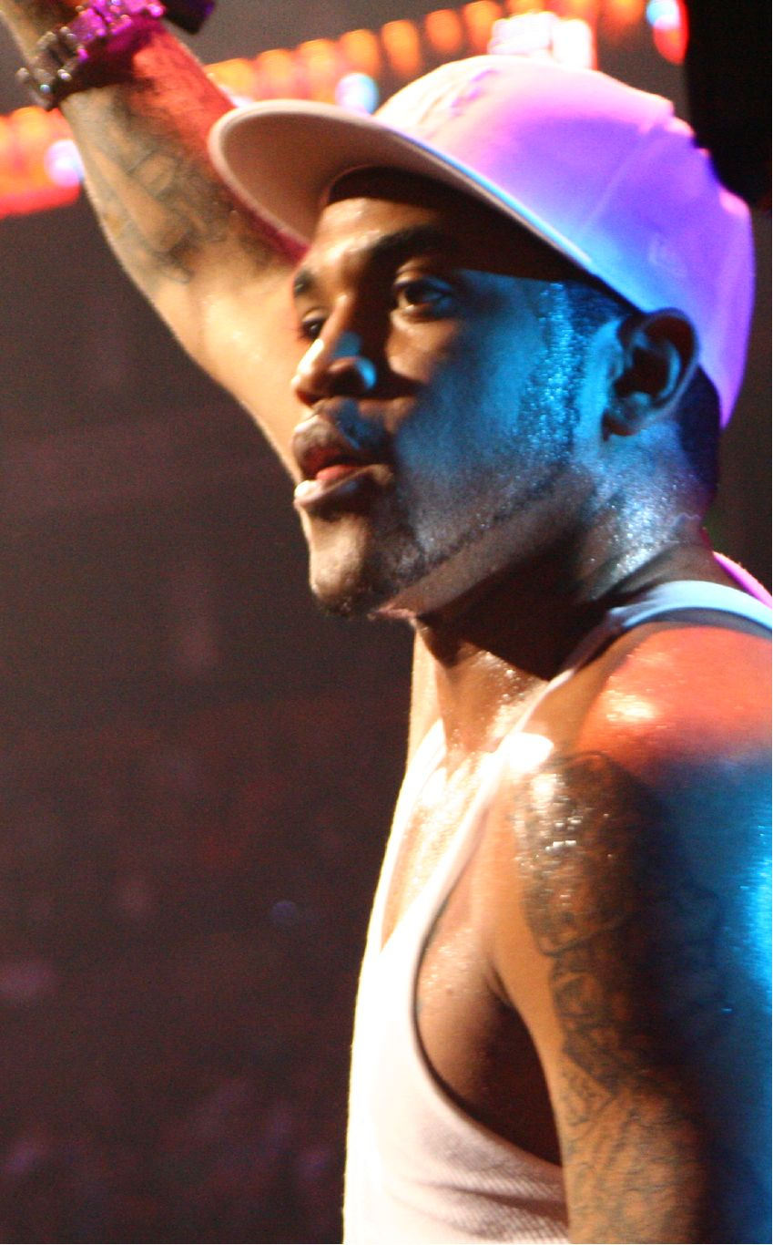 Lloyd Banks performing at Monster Jam in Boston, Massachusetts.Lloyd Banks